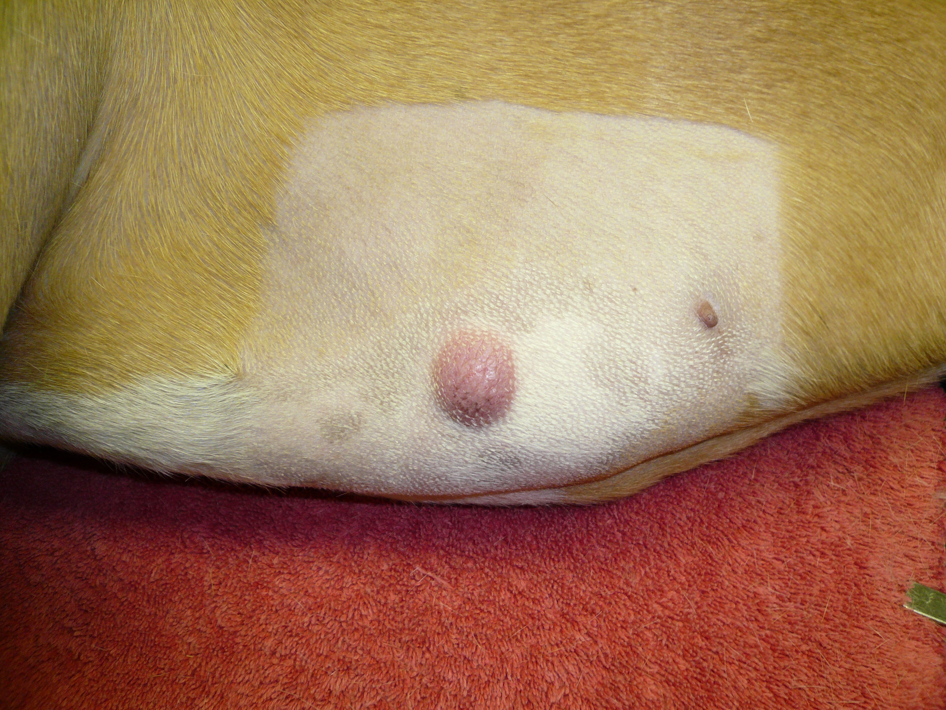 Mast cell tumor on the side of a 3 year old Boxer dog.